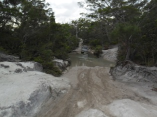 Old Telegraph Track, Cape York, Queensland, Australia